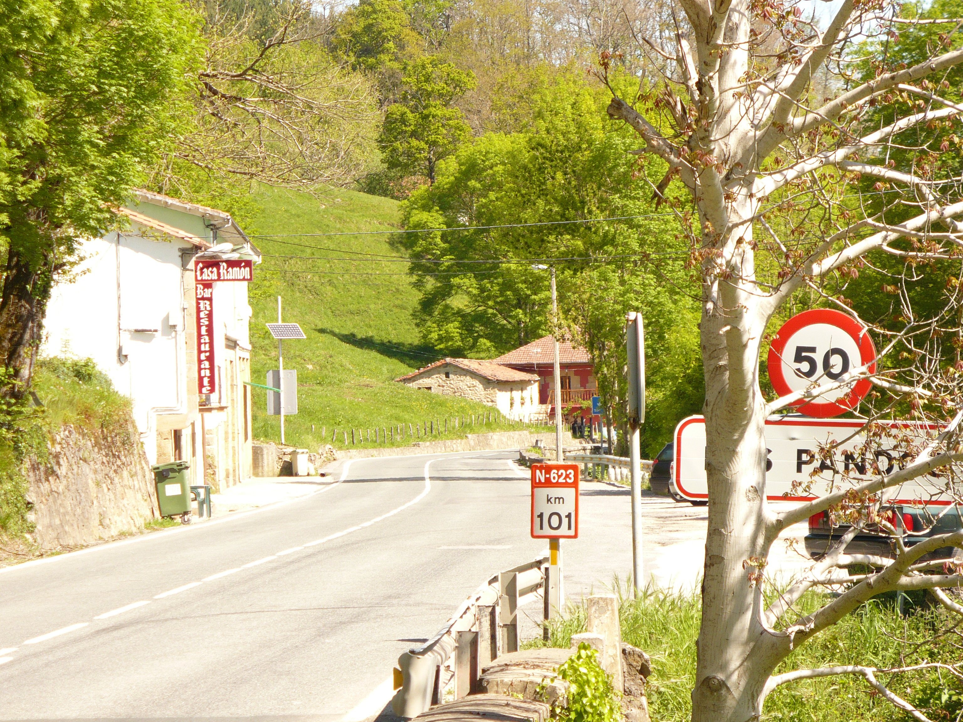 N-623 road at Los Pandos (Luena, Cantabria)